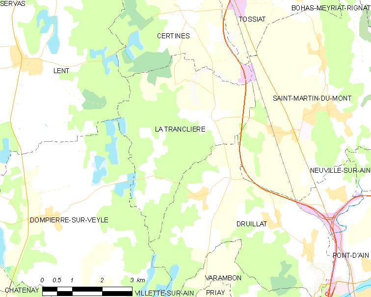 Map of French commune: La Tranclière Map commune FR insee code 01425.png